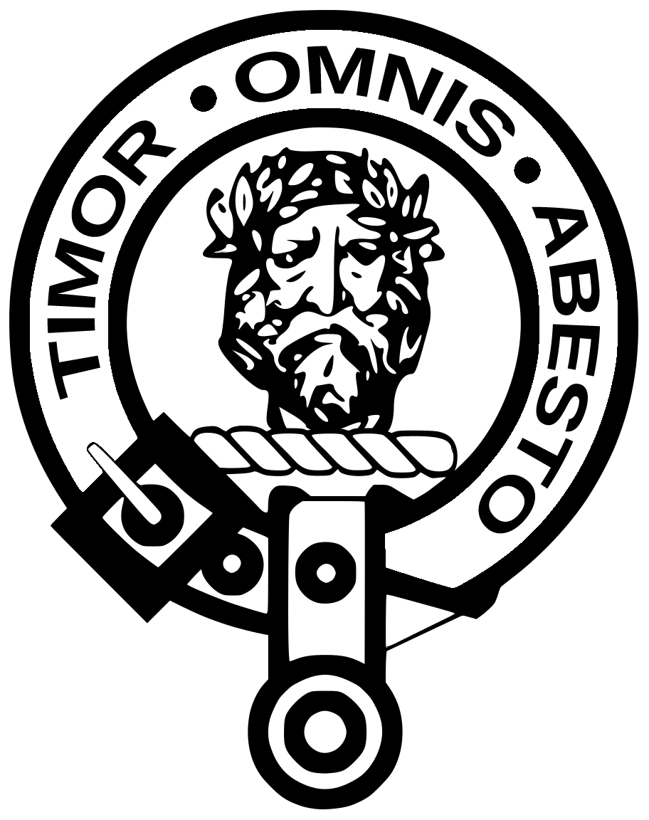 Macnab Clan Crest with correct OMNIS spelling